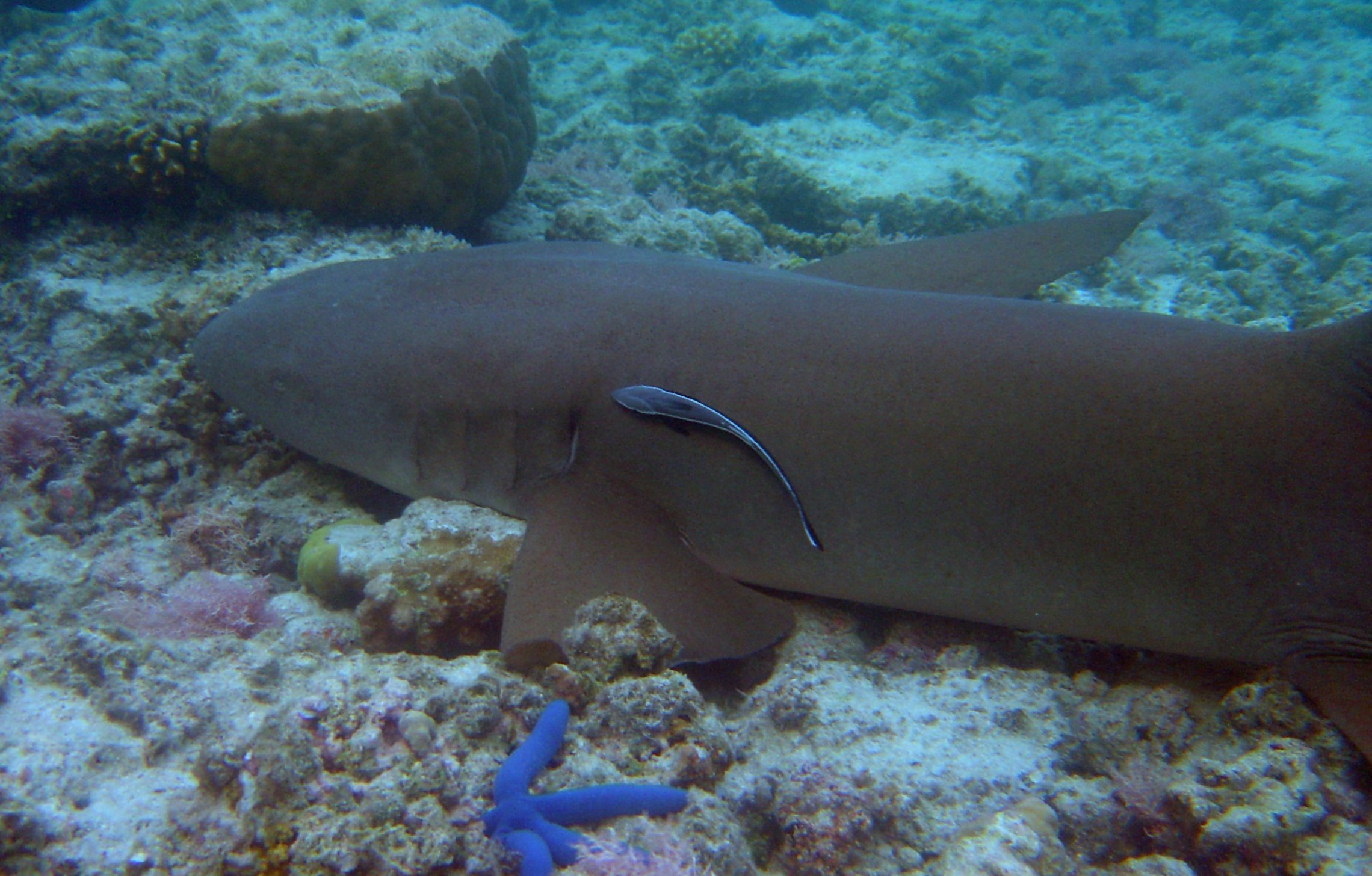 Crop of file in filename